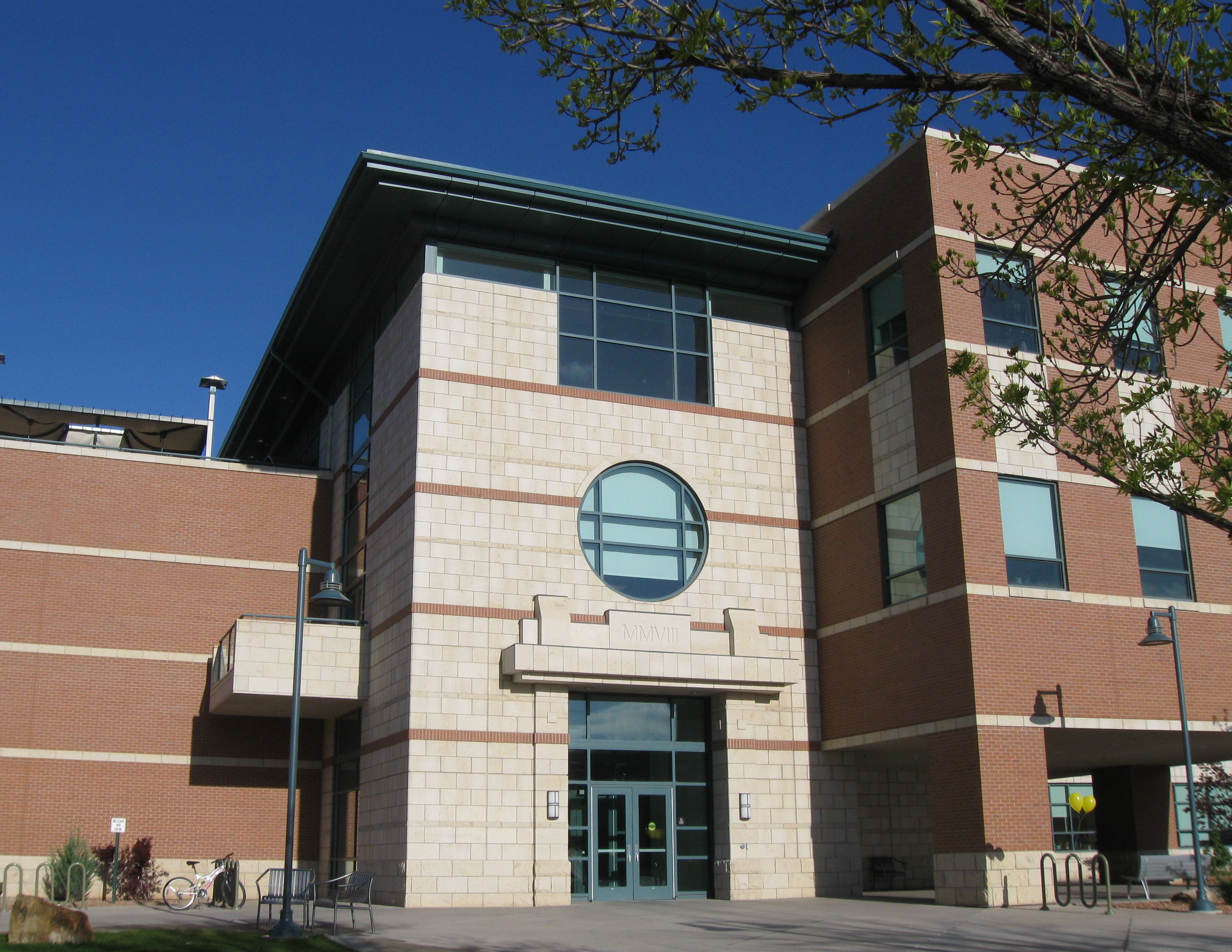 ACB (Academic Classroom Building) - taken by Jeremiah Habecker April 30, 2011 at Mesa State College